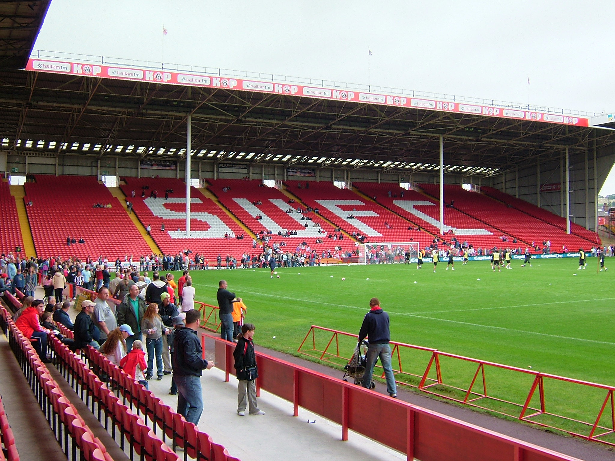 author:Lewis Skinner source:self made